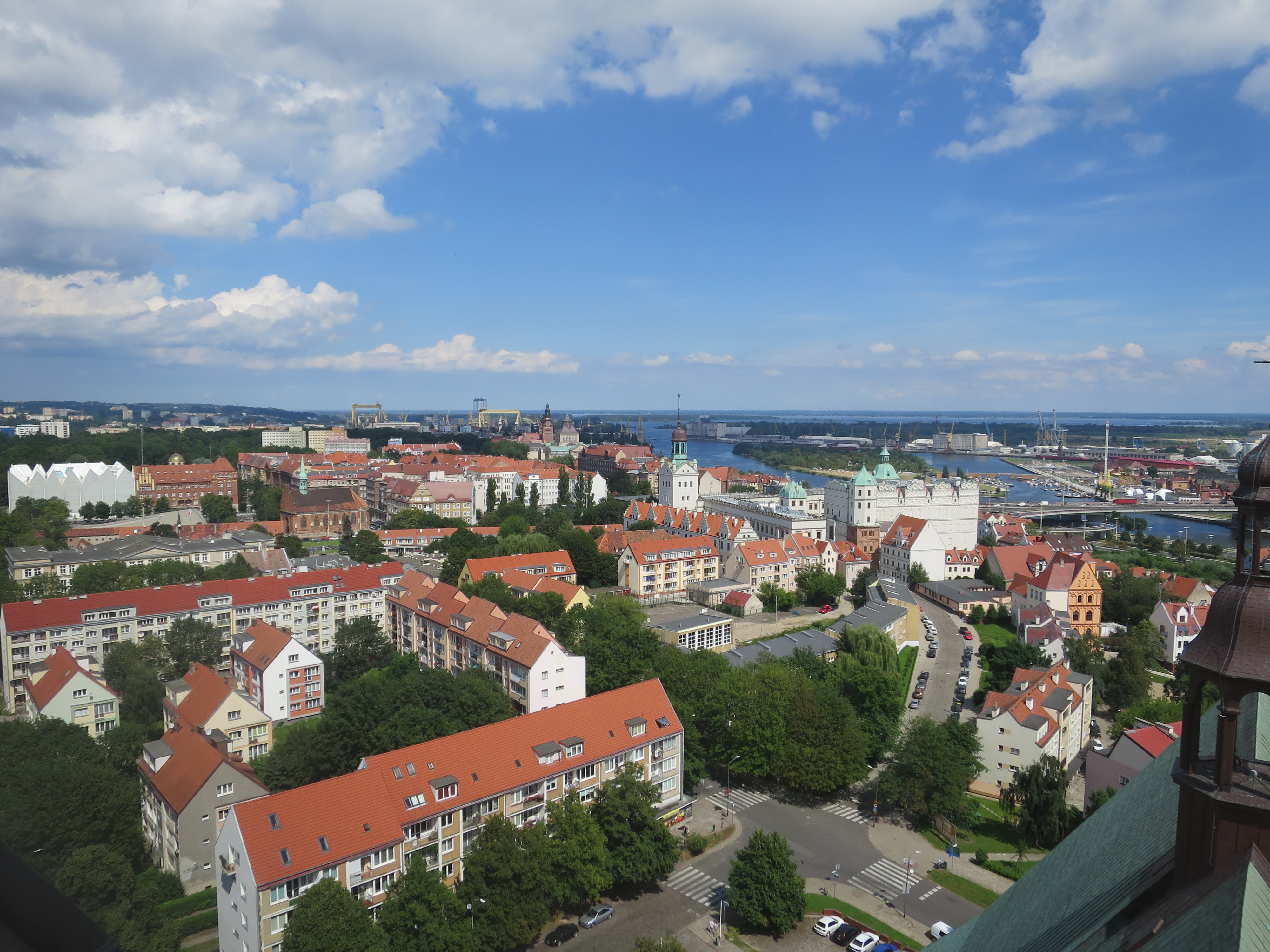 Stare Miasto w Szczecinie, widok ogólny, 2017